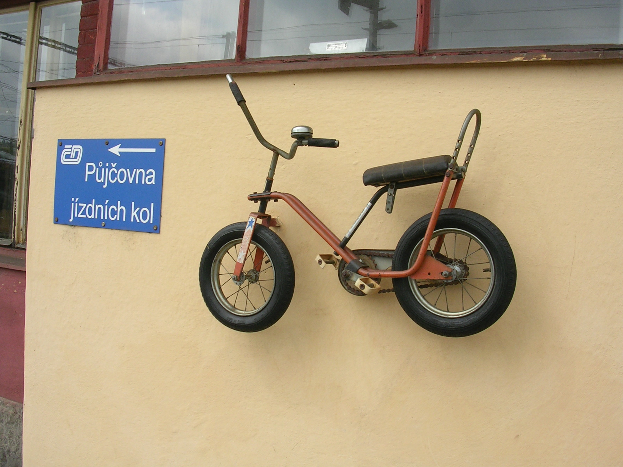 Veselí nad Lužnicí, the Czech Republic. Advertisement of bicycle rental at train station.